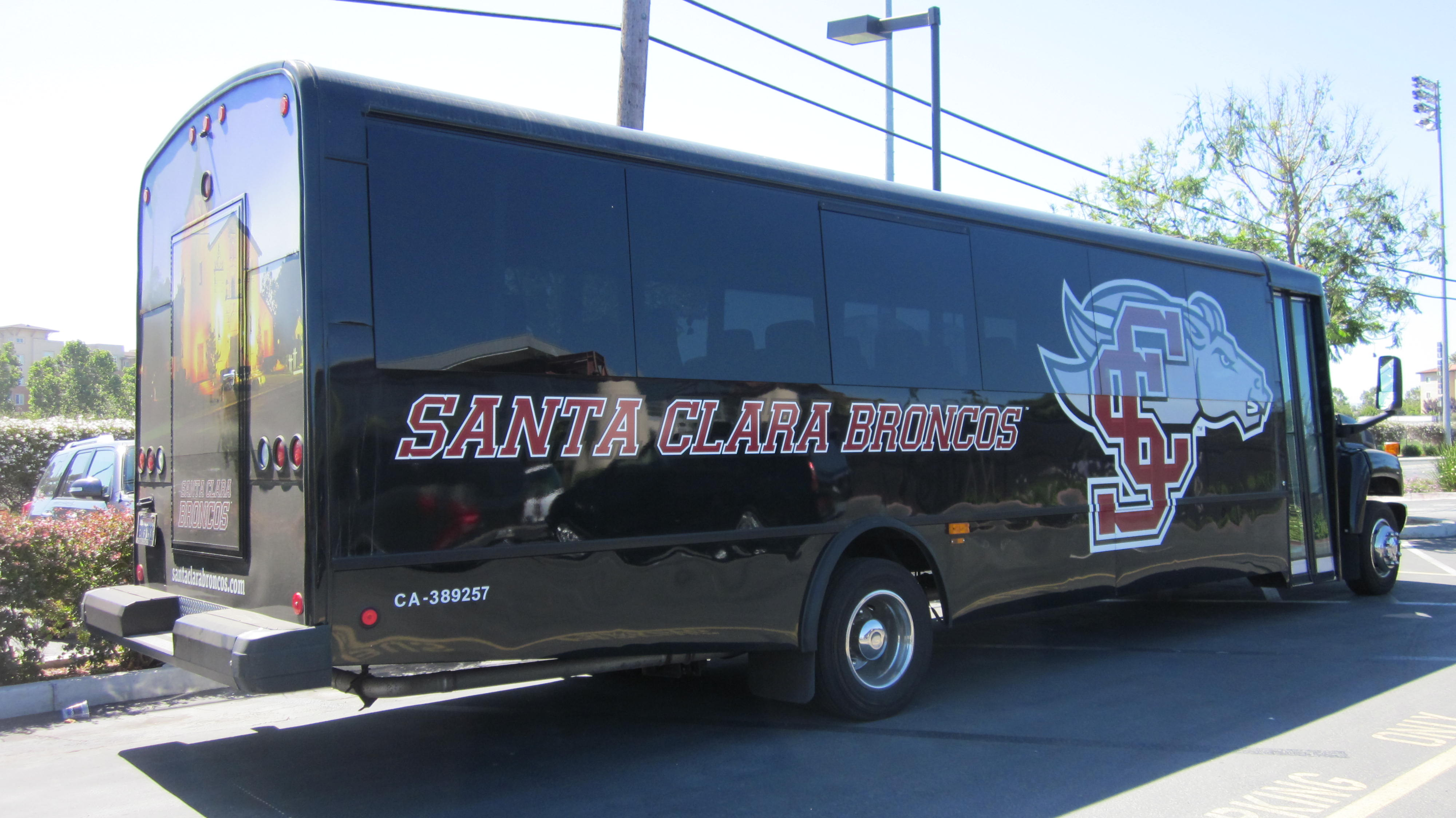 A Santa Clara University athletic team bus.